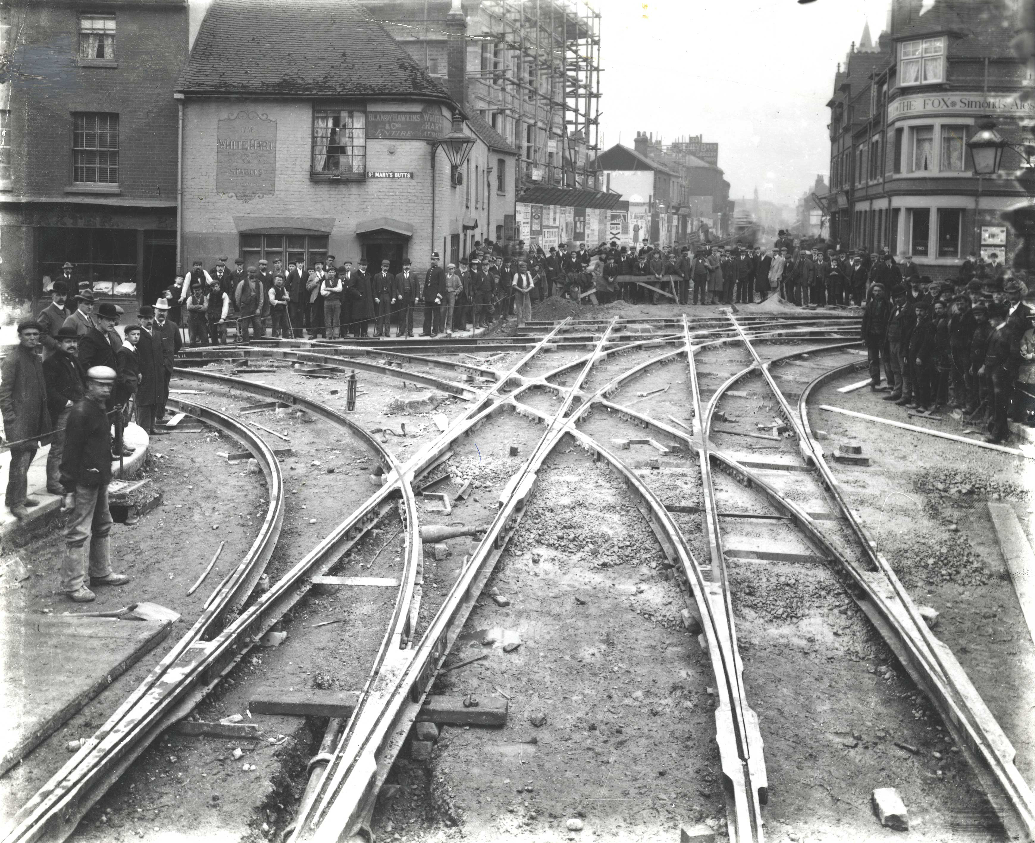 Reading Corporation Tramways. The crossing at the junction of Broad Street, St. Mary's Butts, Oxford Road and West Street, looking westwards along Oxford Road, 1903. The rails are in place, but not yet filled in with cobble-stones. There is a crowd of onlookers, a policeman, and there are several labourers. To the left are No. 2 St. Mary's Butts (Mrs. A. Baxter, fruiterer), and the White Hart Inn. In Oxford Road, Nos. 5, 7 and 9 are being rebuilt, with an advertisement hoarding in front. The Fox Inn, at Nos. 22 and 23 West Street, is to the right. 1900-1909 : photograph by Walton Adams.